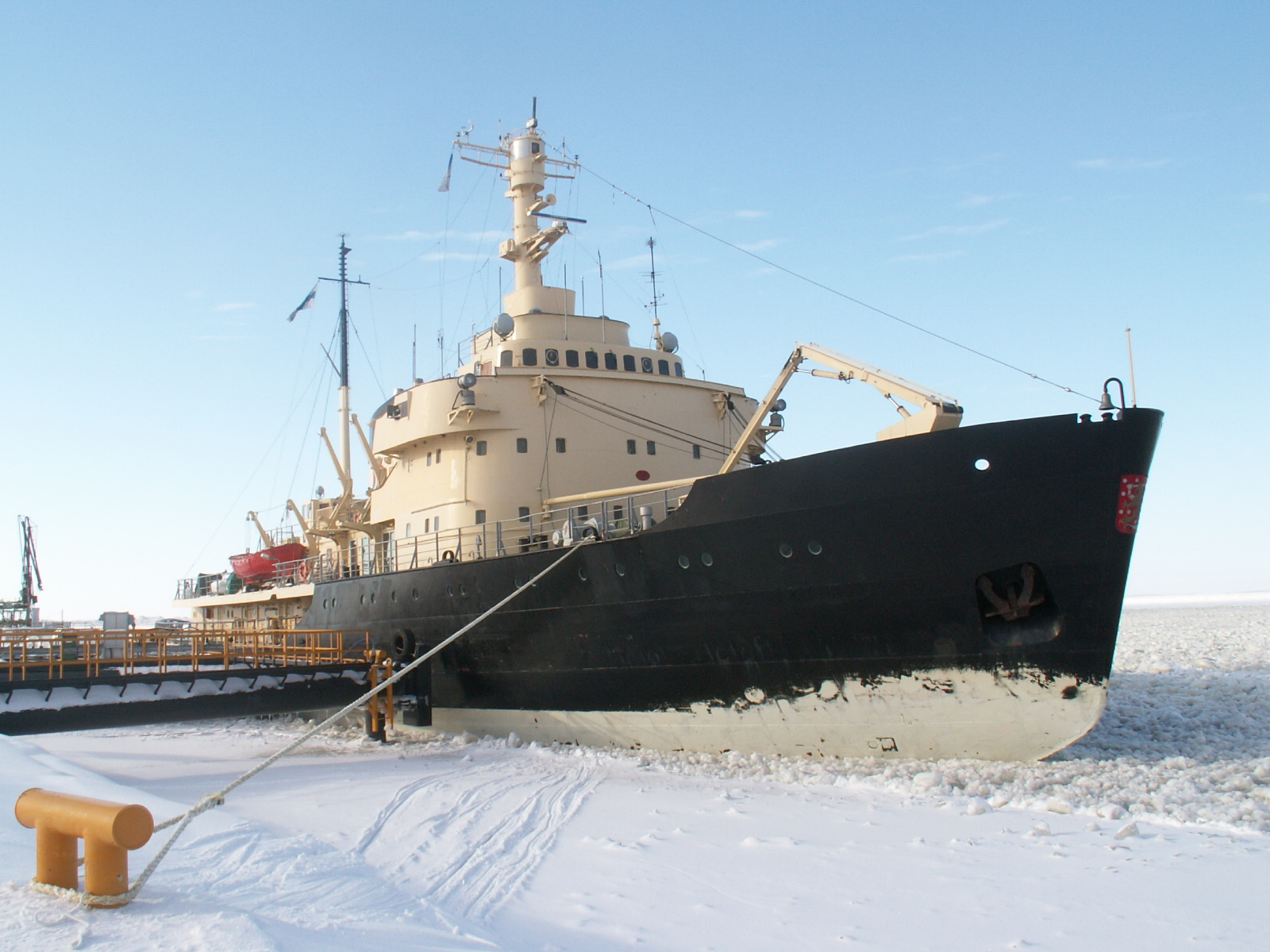 Icebreaker Sampo, Kemi Port